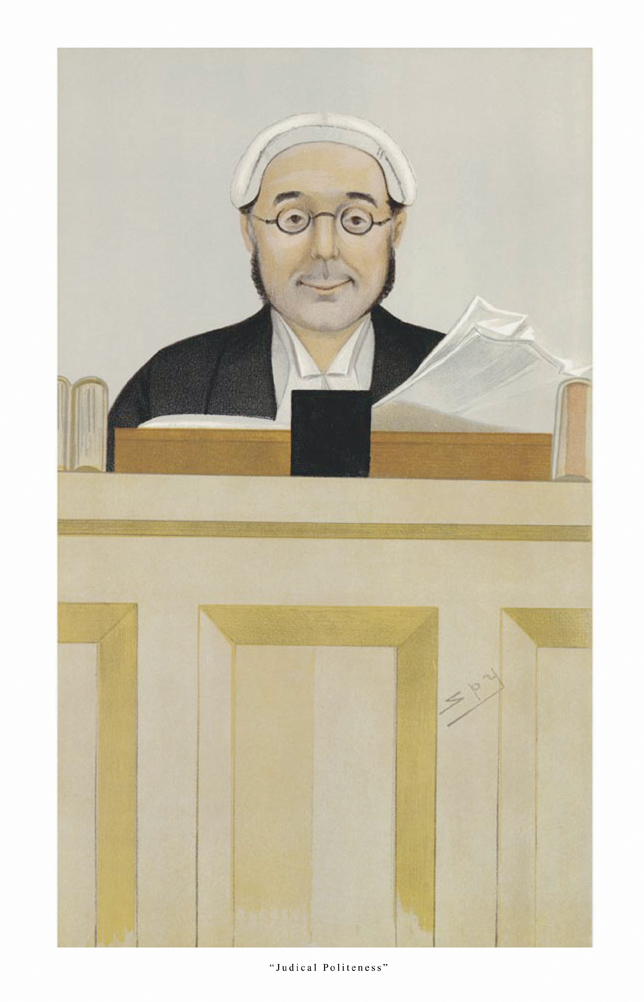 Caricature of Charles Synge Christopher Bowen. Caption read "Judicial Politeness".